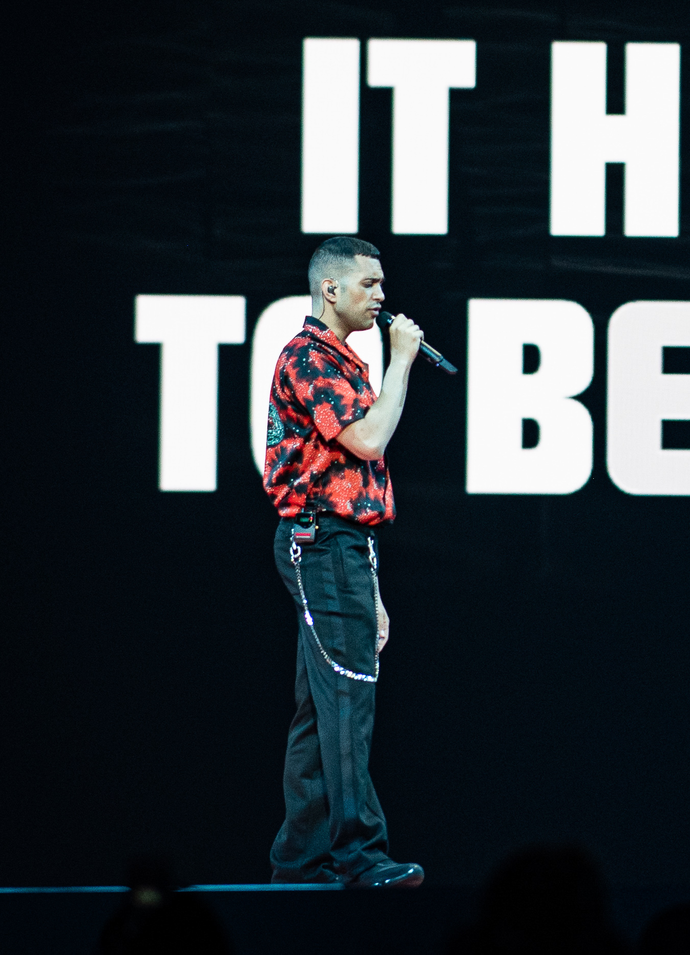 Italian singer-songwriter Mahmood at the 2019 Eurovision Song Contest Grand Final Dress Rehearsal.